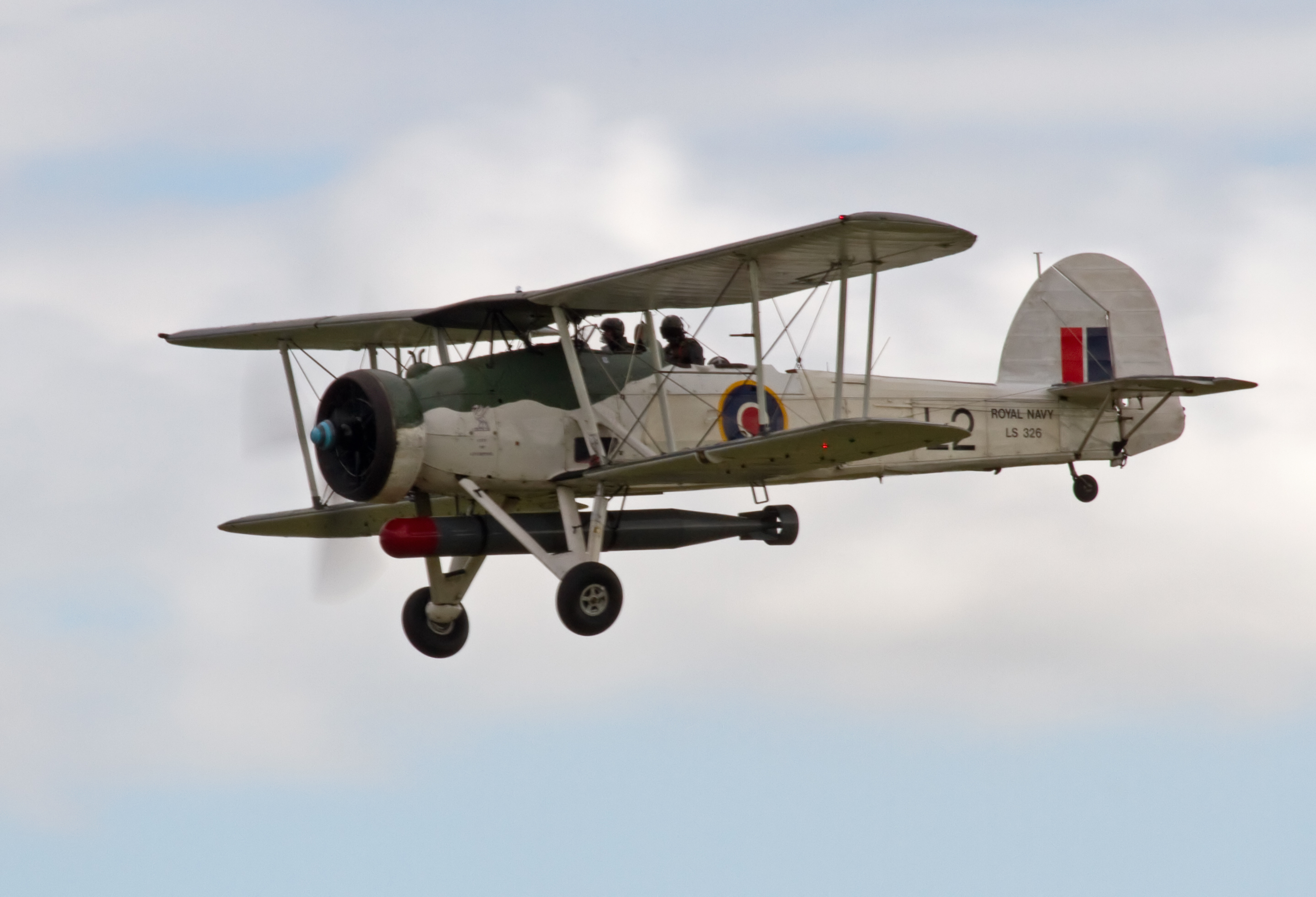 Swordfish